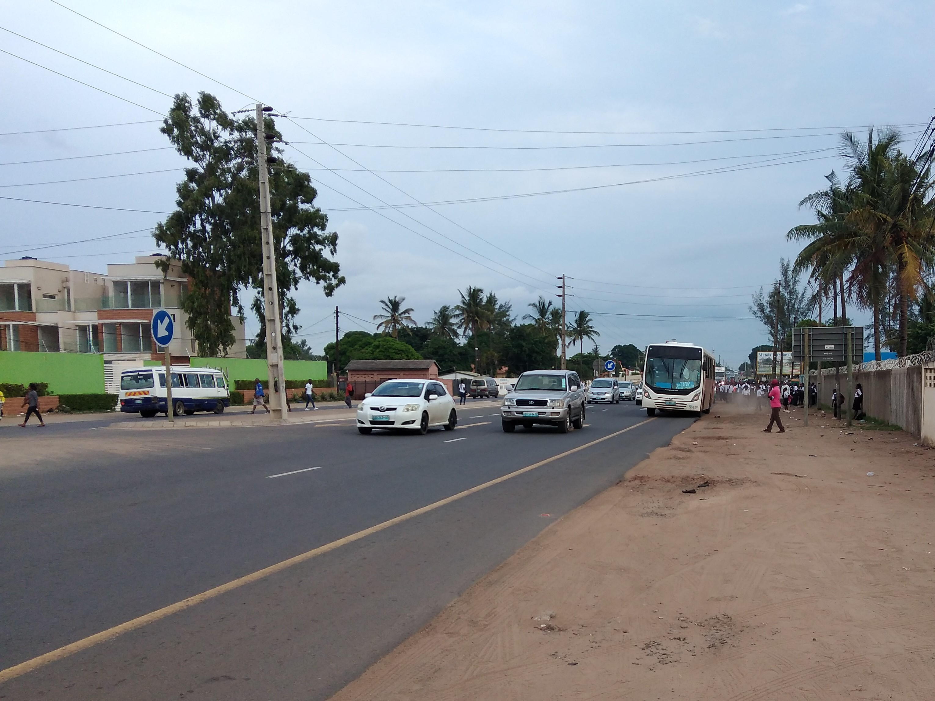 This is taken one of the busy road Matola to Mozambique . This is an image with the theme "Africa on the Move or Transport" from: Mozambique